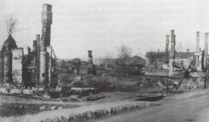 1918 Finnish Civil War: Village of Idänpää in Vanaja, Finland, destroyed by German artillery fire in the Battle of Hämeenlinna.